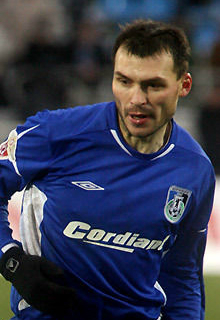 Anatoly Romanovich in action for FC Shinnik